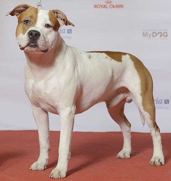 American Staffordshire Terrier(Amstaff), adult male, with natural ears. At Dog Show. 2016